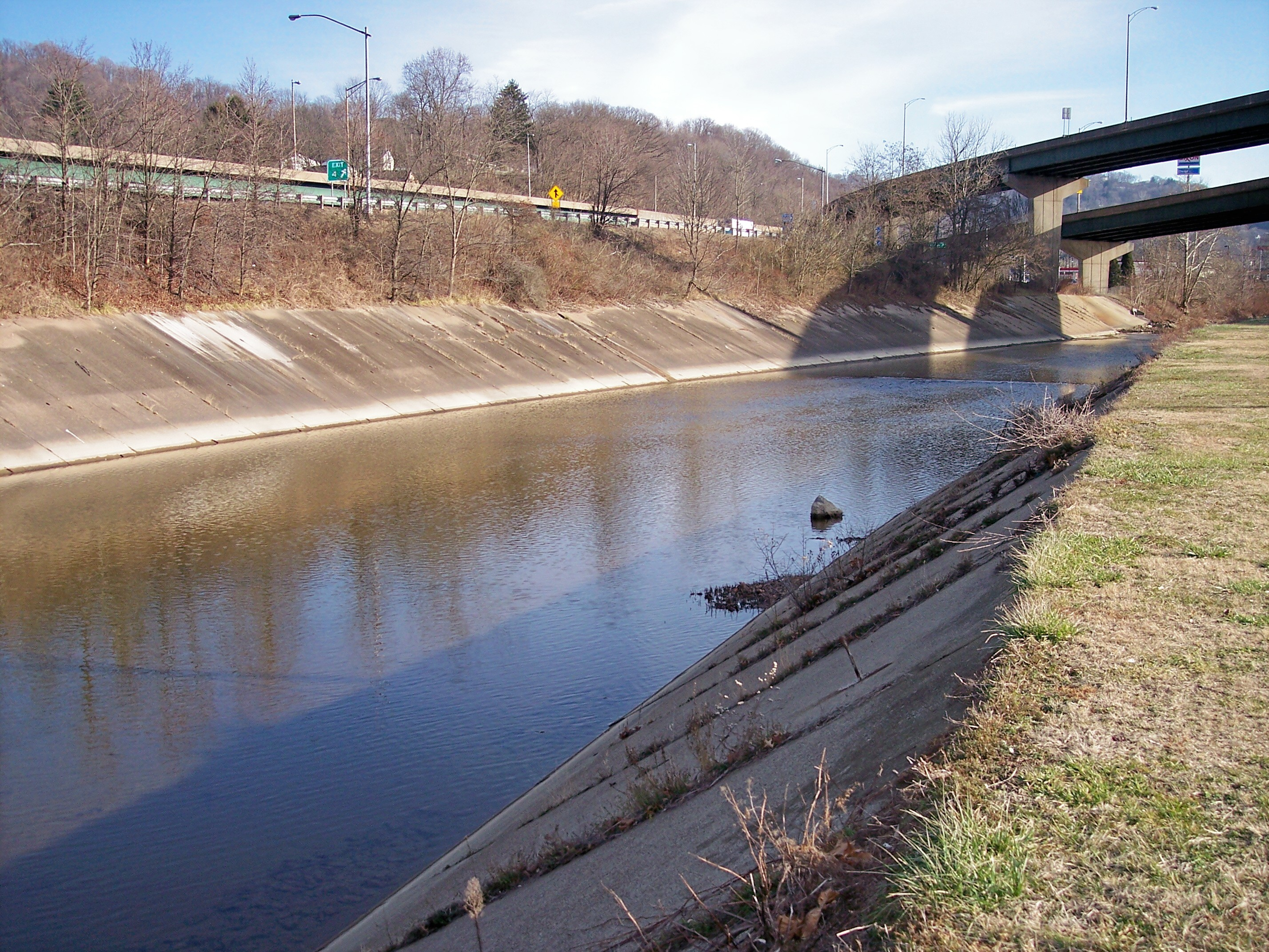 Wheeling Creek as viewed at the junction of Interstate 70 (left) and Interstate 470 (Ohio-West Virginia) (right) in Wheeling, West Virginia.